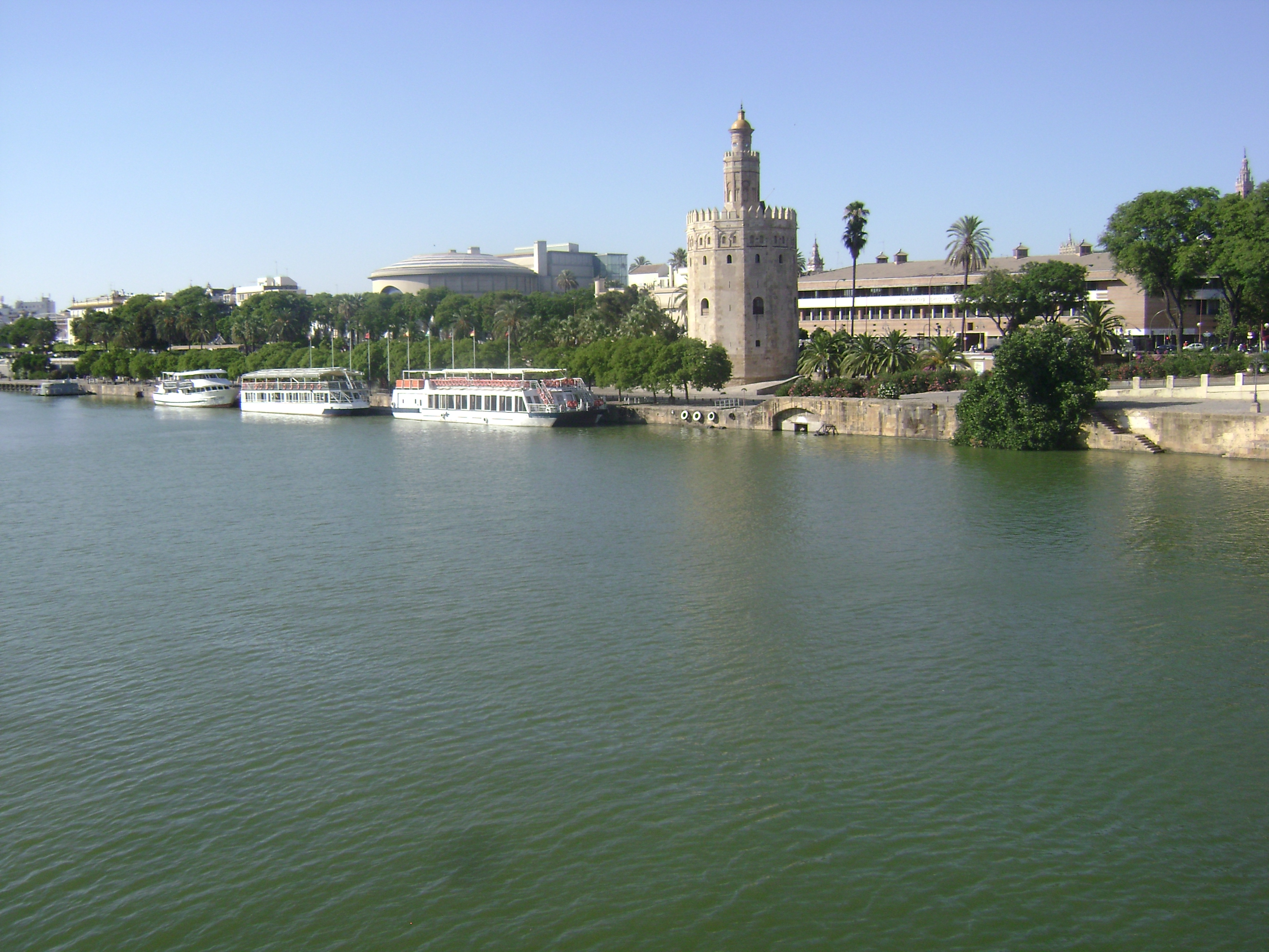 Spain, Seville, Torre del Oro, Guadalquivir